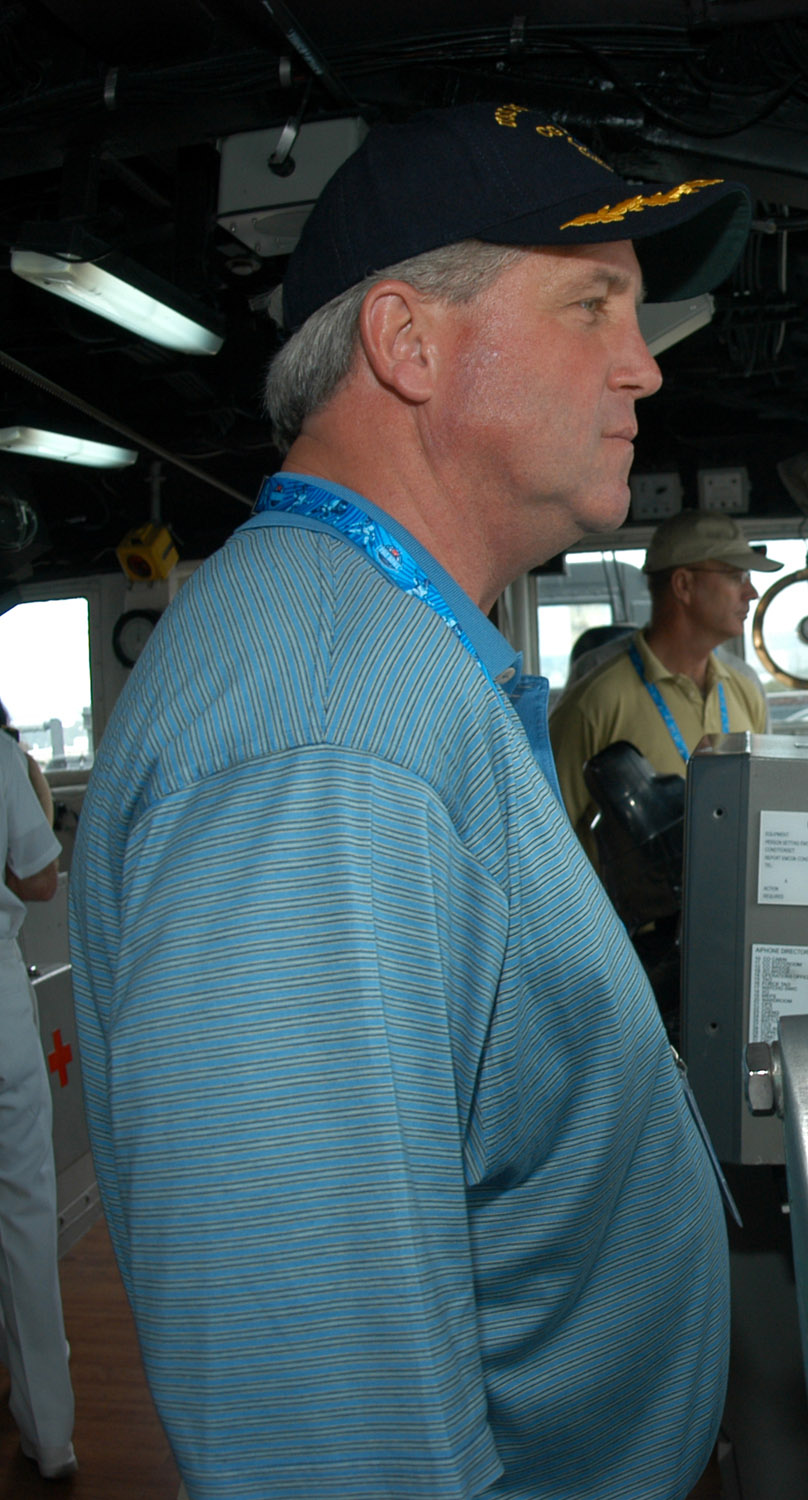 National Football League (NFL) Carolina Panthers’ head coach John Fox, views Pearl Harbor from the bridge aboard the guided-missile cruiser USS Port Royal (CG 73) during a tour of the ship. Fox visited Port Royal while in Hawaii for the 2006 NFL Pro Bowl. The Pro Bowl, features All-Star players from the National Football Conference (NFC) and the American Football Conference (AFC) in a game, which will be played for the 27th consecutive year at Aloha Stadium in Honolulu, Hawaii.